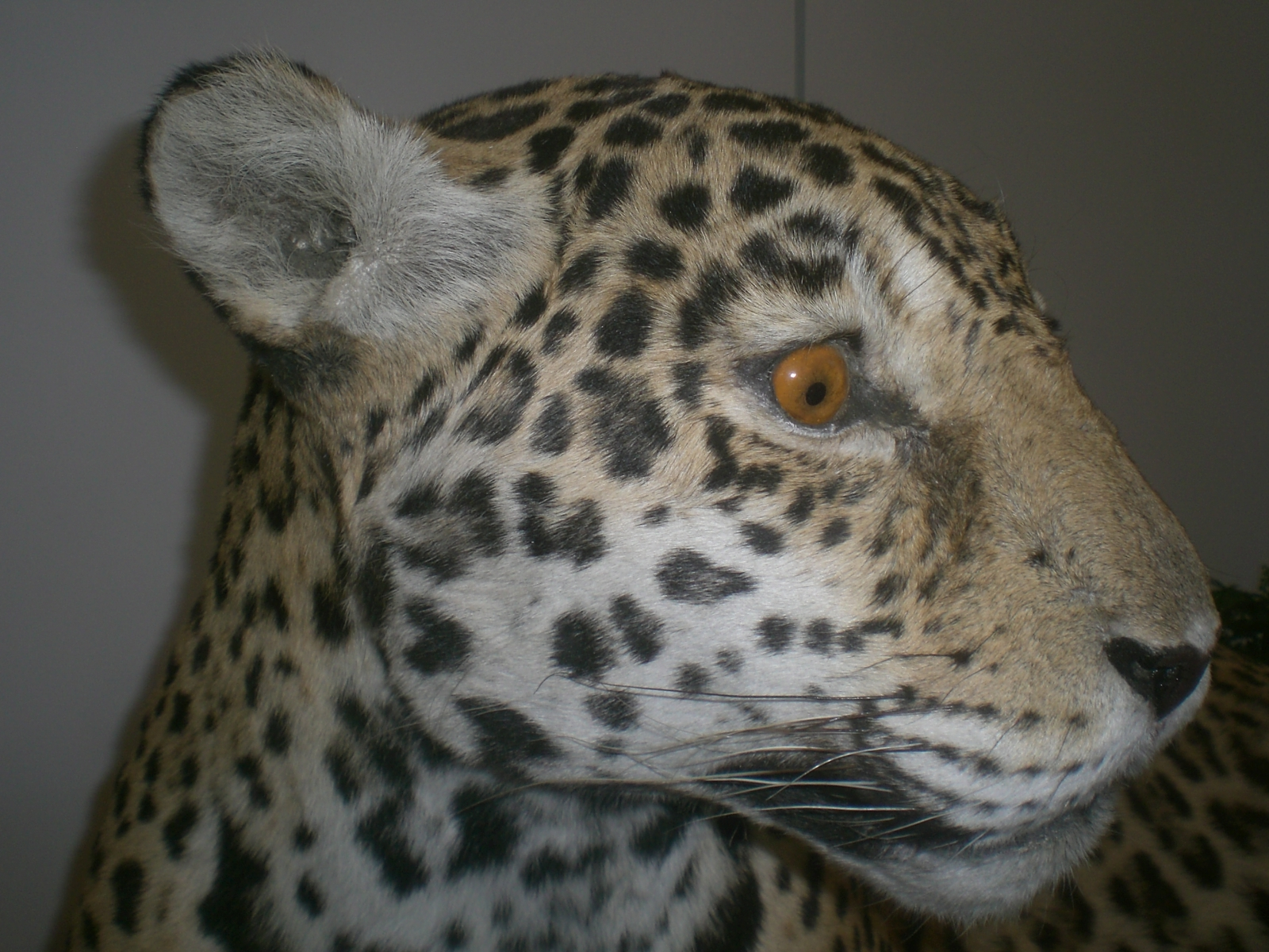 香港島中環香港動植物公園 香港zh:美洲虎小花